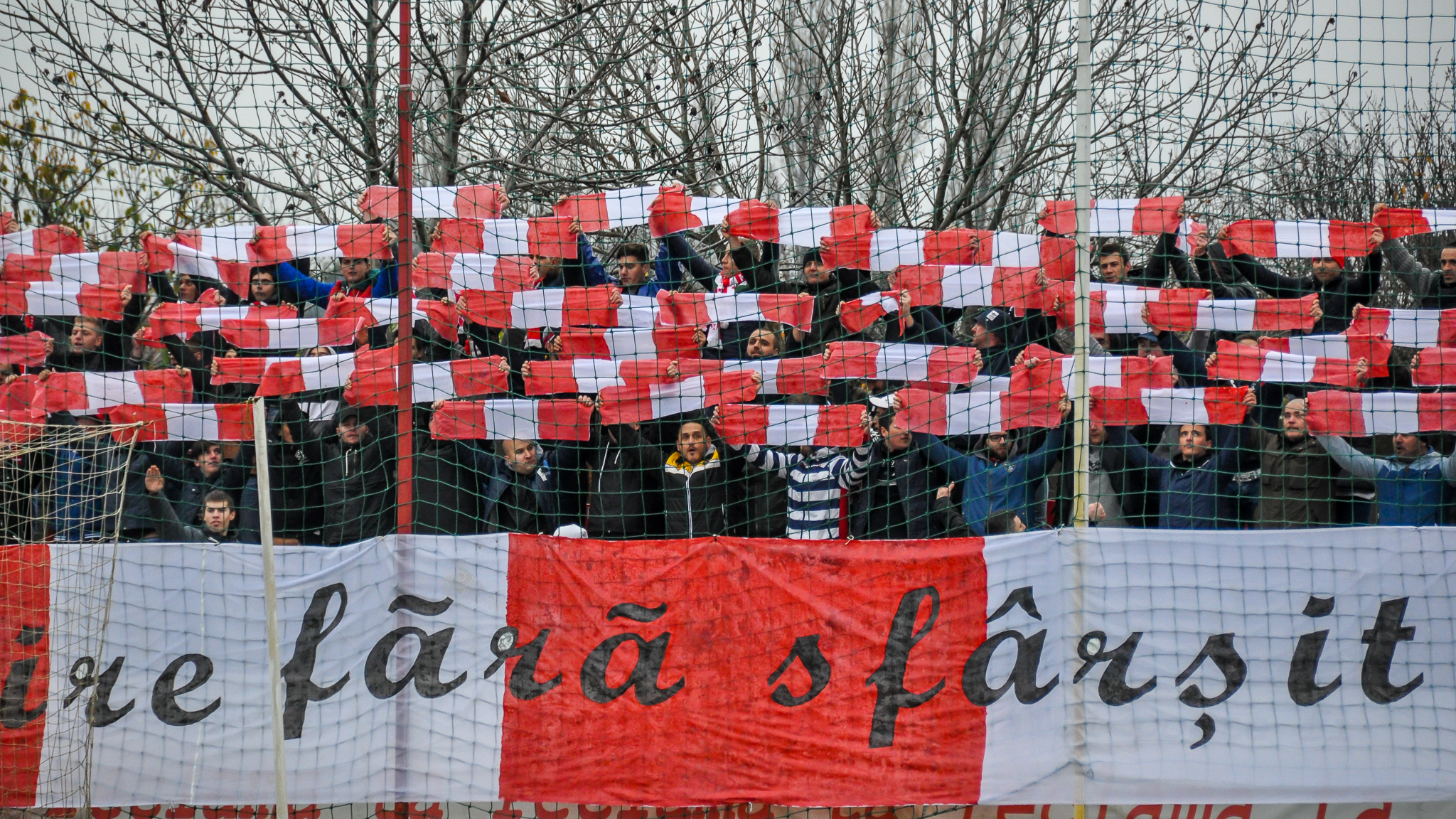 This is a photo of UTA Arad fans.